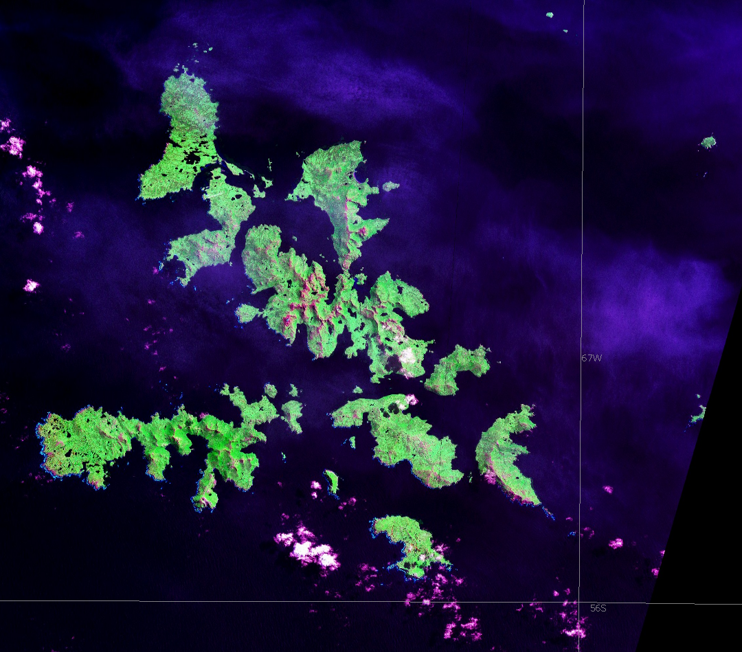 Wollaston Islands (north) Hermite Islands (south)# southernmost island groups of South America after Diego Ramirez Islands